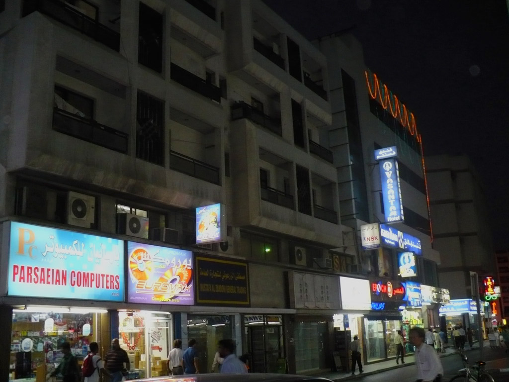 Al Souk Al Kabir locality in Dubai